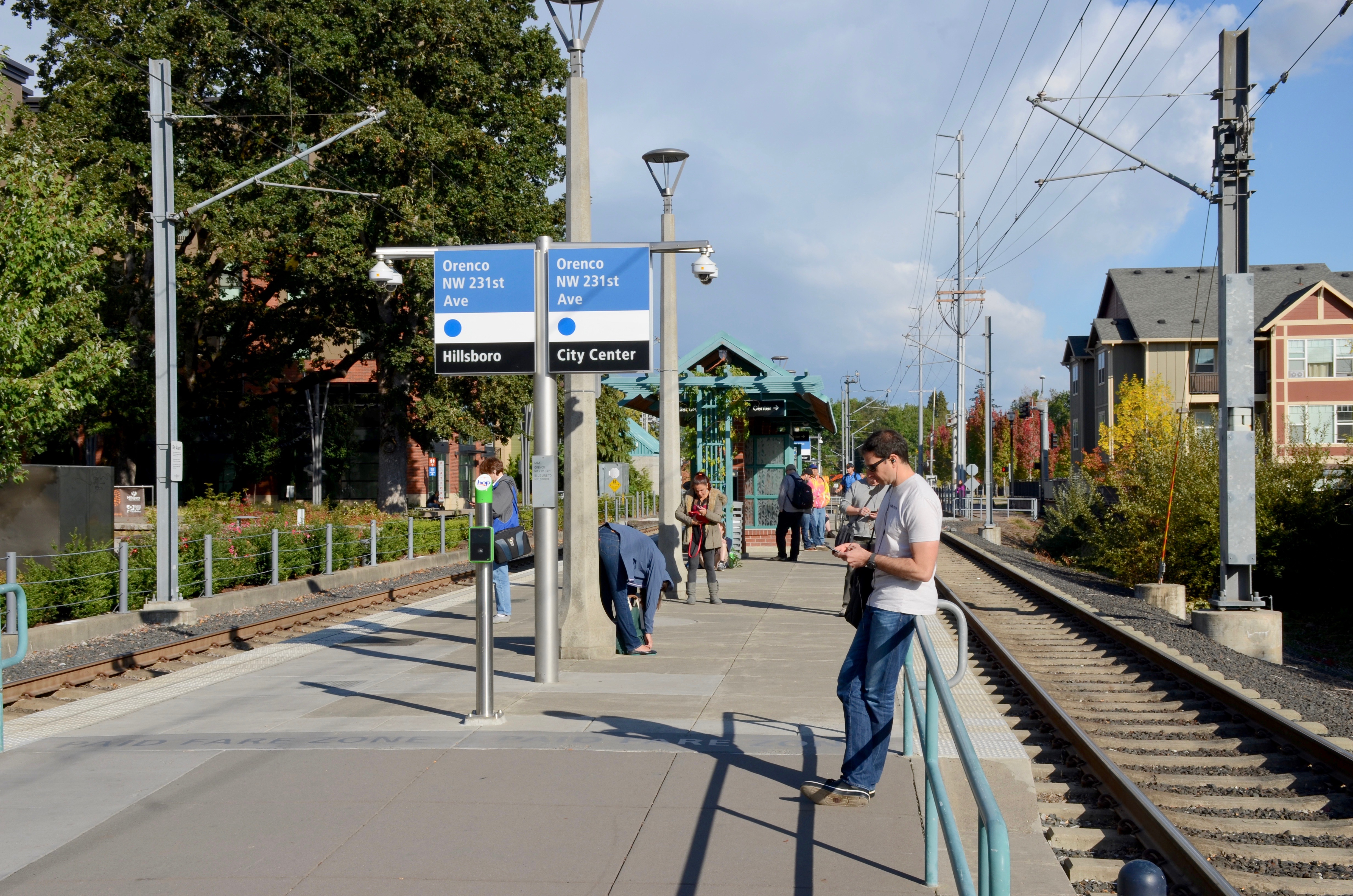 Orenco station on the MAX Light Rail system from its west end. From its opening in 1998 until 2017, the station was named "Orenco/NW 231st Avenue". Its name was shortened to simply Orenco" station a few weeks before this photo was taken, but the platform signs – which presumably are very expensive to update, unlike most media for MAX riders – have retained the old, longer name for the station identification indefinitely, are are unchanged as of April 2019.